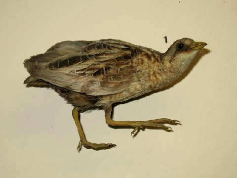 Description: Yellow Rail - Source: own work - Location: American Museum of Natural History, New York - Author: self, User:Stavenn